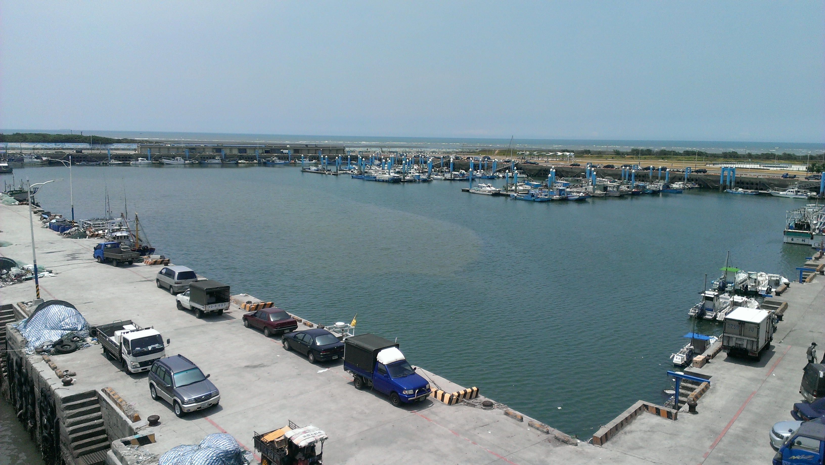 Hsinchu Fish Harbor, North District, Hsinchu City, Taiwan中文（台灣）: 中华民国新竹市北区新竹漁港之一景